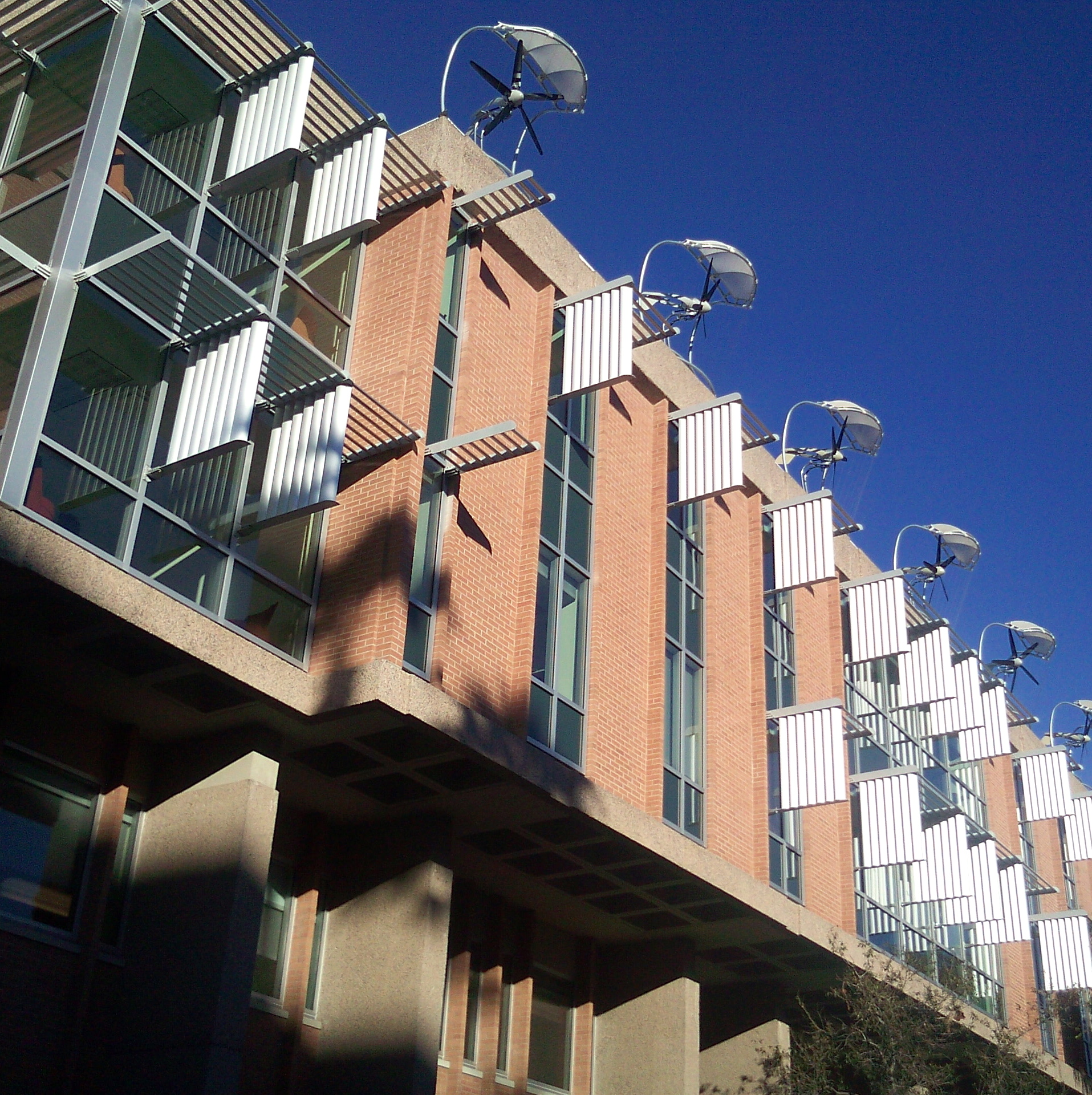 The School of Sustainability at Arizona State University. The School was founded in 2007 and provides interdisciplinary undergraduate and graduate programs. The wind turbines and soon-to-be installed solar panels demonstrate ASU's commitment to running the campus in a much more sustainable fashion. Shot with the Motorola Zine ZN5 mobile phone with an embedded Kodak camera.